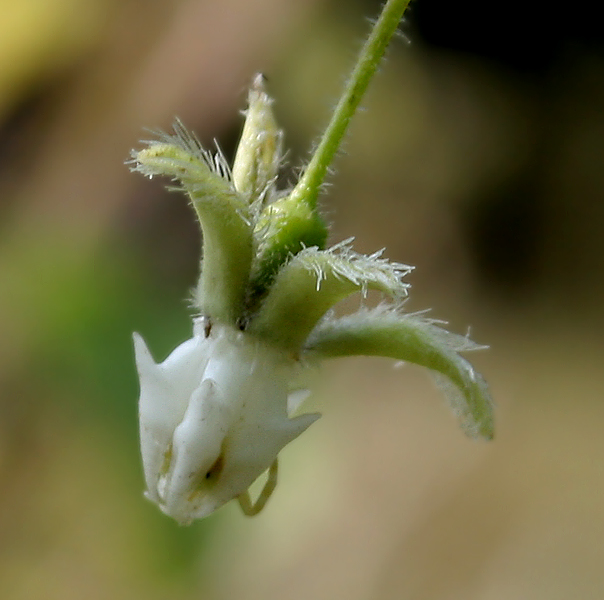 Pergularia daemia (Syn. P. extensa, Asclepias daemia, Cynanchum extensum, Daemia extensa, D. scandens)- Pergularia • Hindi: Utaran, Sagovani, Aakasan, Gadaria Ki bel, Jutak • Marathi: Utarn 'उतरण'• Tamil: Uttamani, Seendhal kodi • Malayalam: Veliparatti • Telugu: Dustapuchettu, Jittupaku • Kannada: Halokoratige, Juttuve, Talavaranaballi, Bileehatthi balli • Bengali: Chagalbati, Ajashringi • Oriya: Utrali • Sanskrit: Uttamarani, Kurutakah, Visanika, Kakajangha - in Hyderabad, India.